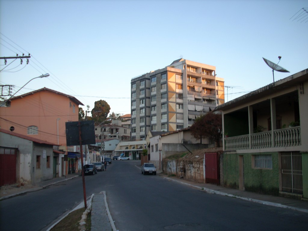 View of Floriano Peixoto Street in Santa Luzia (MG).